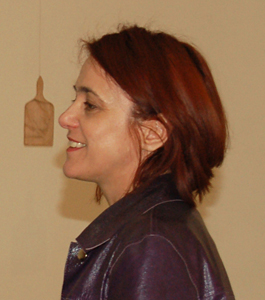 Portrait of Marianne Csaky.jpg